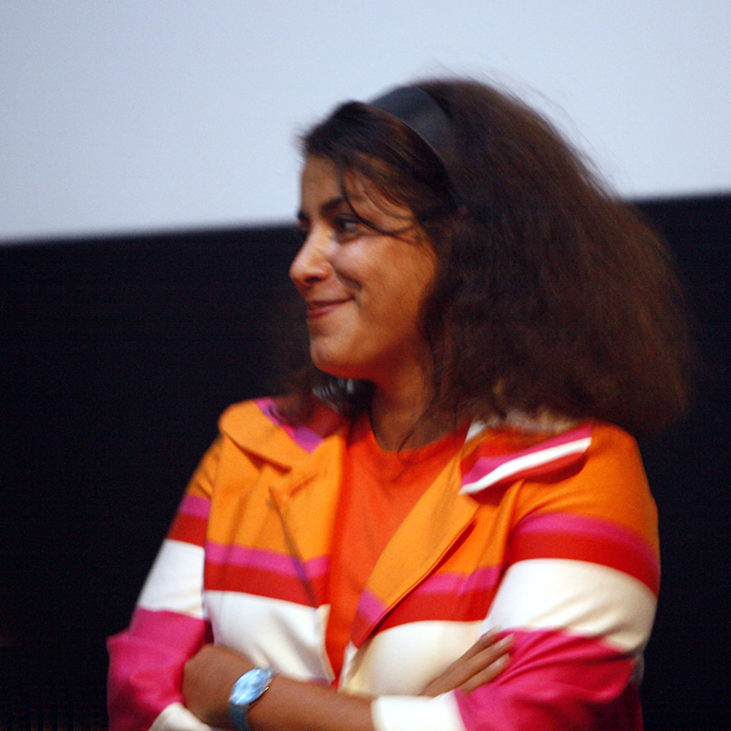 Marjane Satrapi during a premiere of her film Persepolis